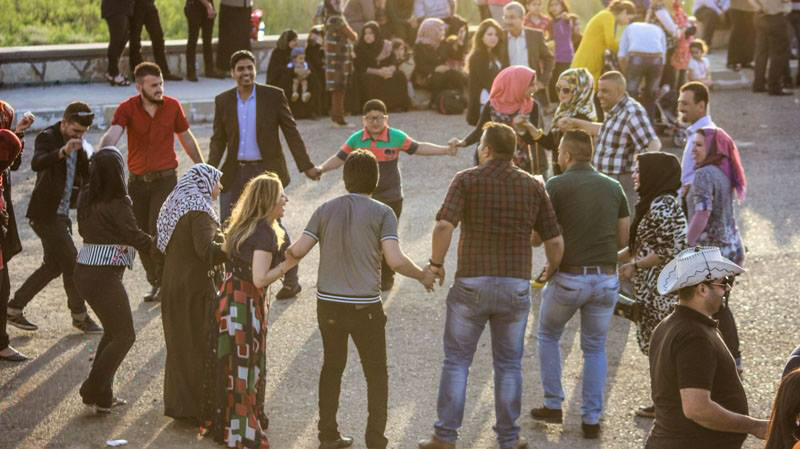 attendees of the event doing the traditional Iraqi Kurdish dance